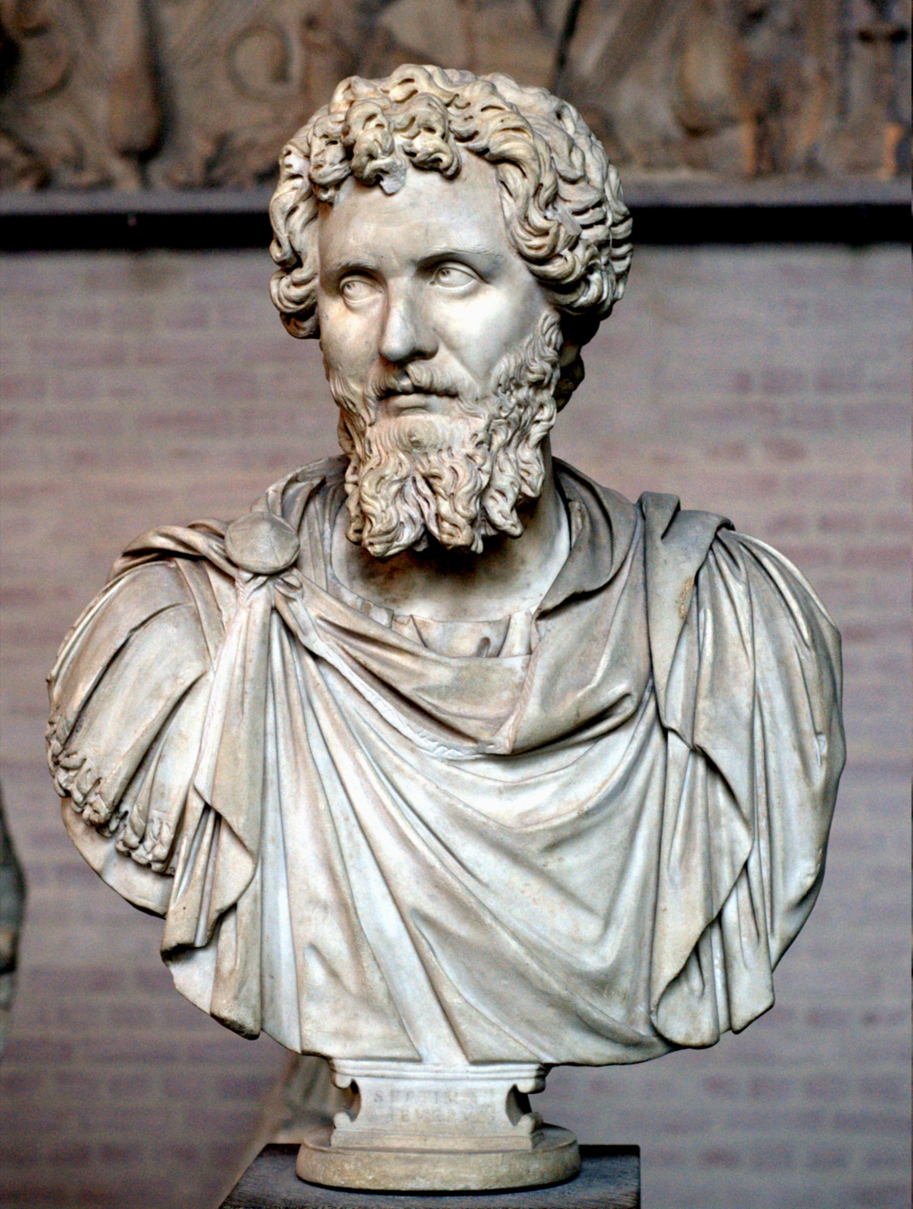 Bust of Septimius Severus (reign 193–211 CE). White, fine-grained marble, modern restorations (nose, parts of the beard, draped bust).